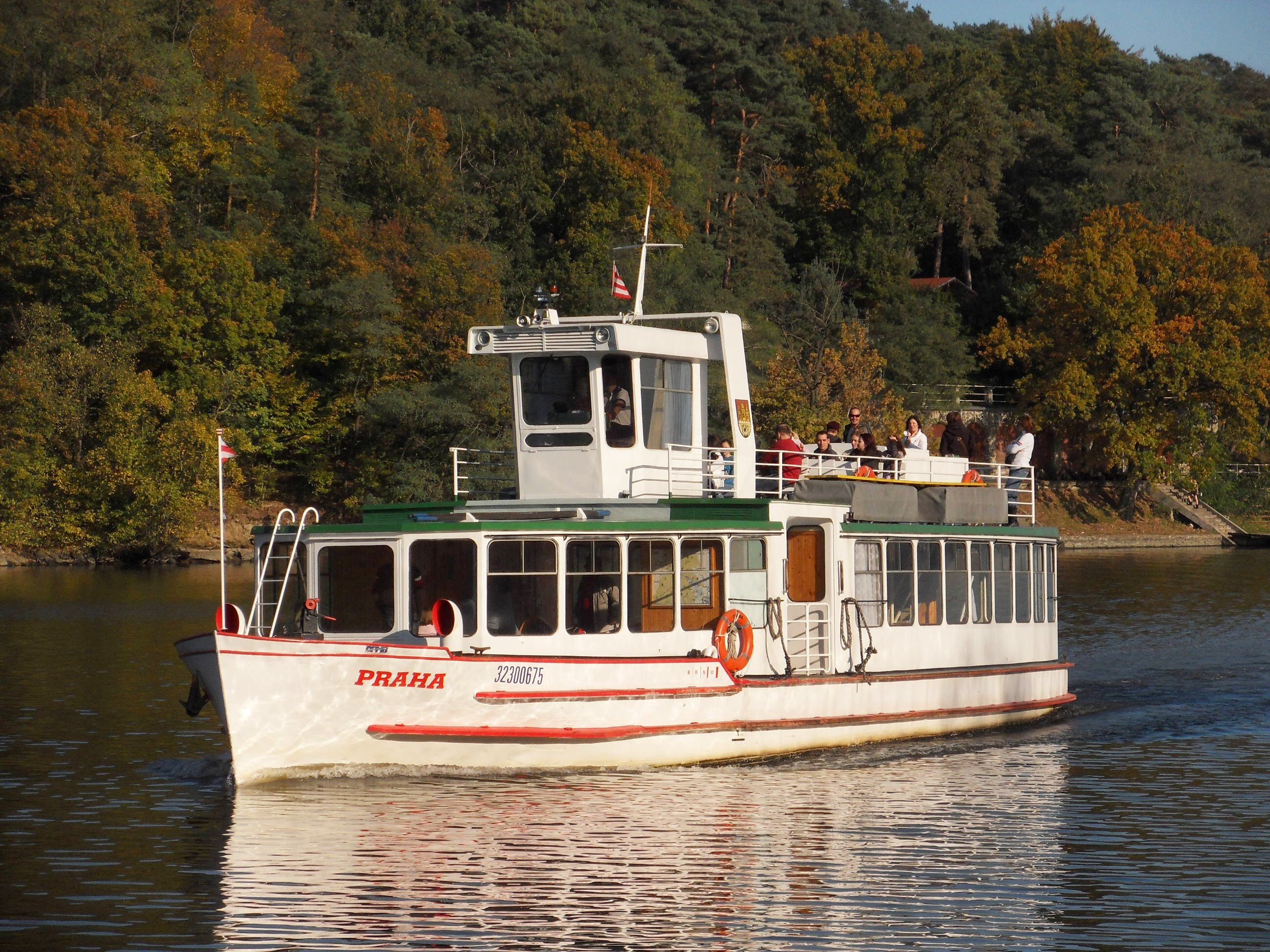 Praha ship at Brno Reservoir, Brno, Czech Republic